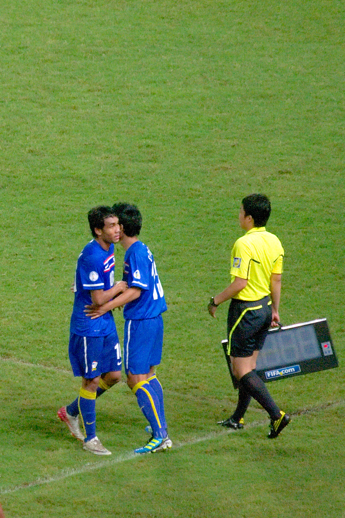 Teerasil Dangda was replaced by Chatree Chimtalay during Thailand's World Cup 2014 third round qualifying match against Oman at Rajamangala Stadium